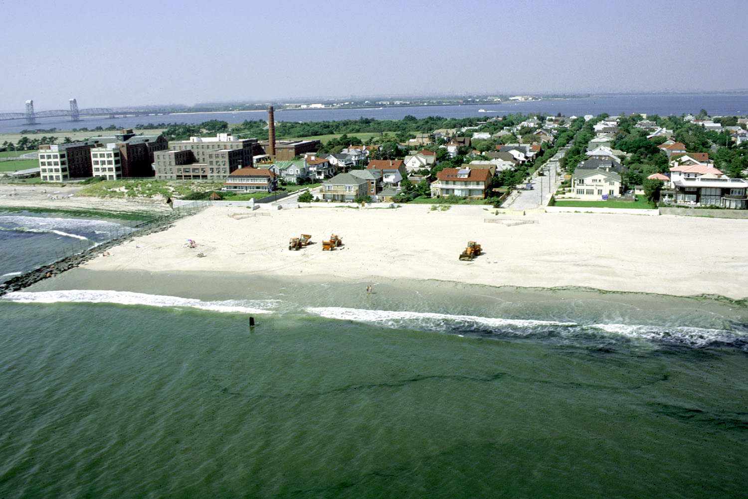 Aerial view of the beach area of Rockaway Park neighborhood, Queens, New York. The photograph appears to be taken from directly off the end of Beach 148th Street in the Neponsit area, next to Jacob Riis Park. The U.S. Army Corps of Engineers is working to replenish the sand on the beach. Marine Parkway-Gil Hodges Memorial Bridge in background left.